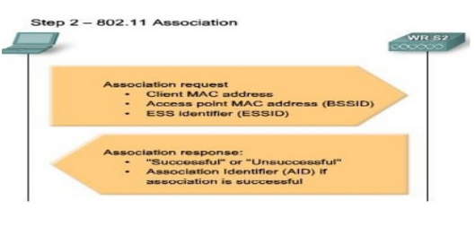 Зураг 1.4